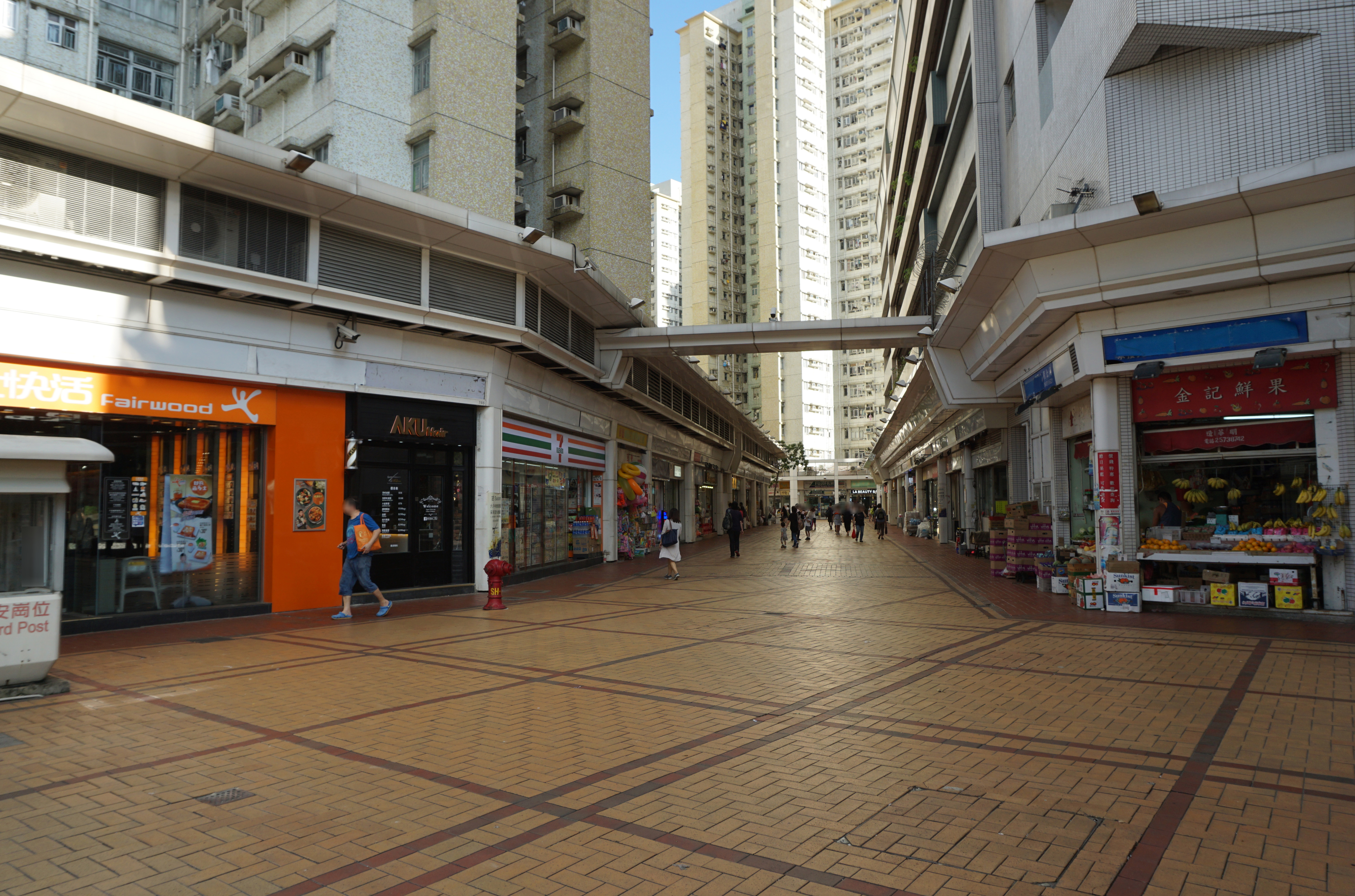 Rhythm Garden in San Po Kong, Hong Kong.